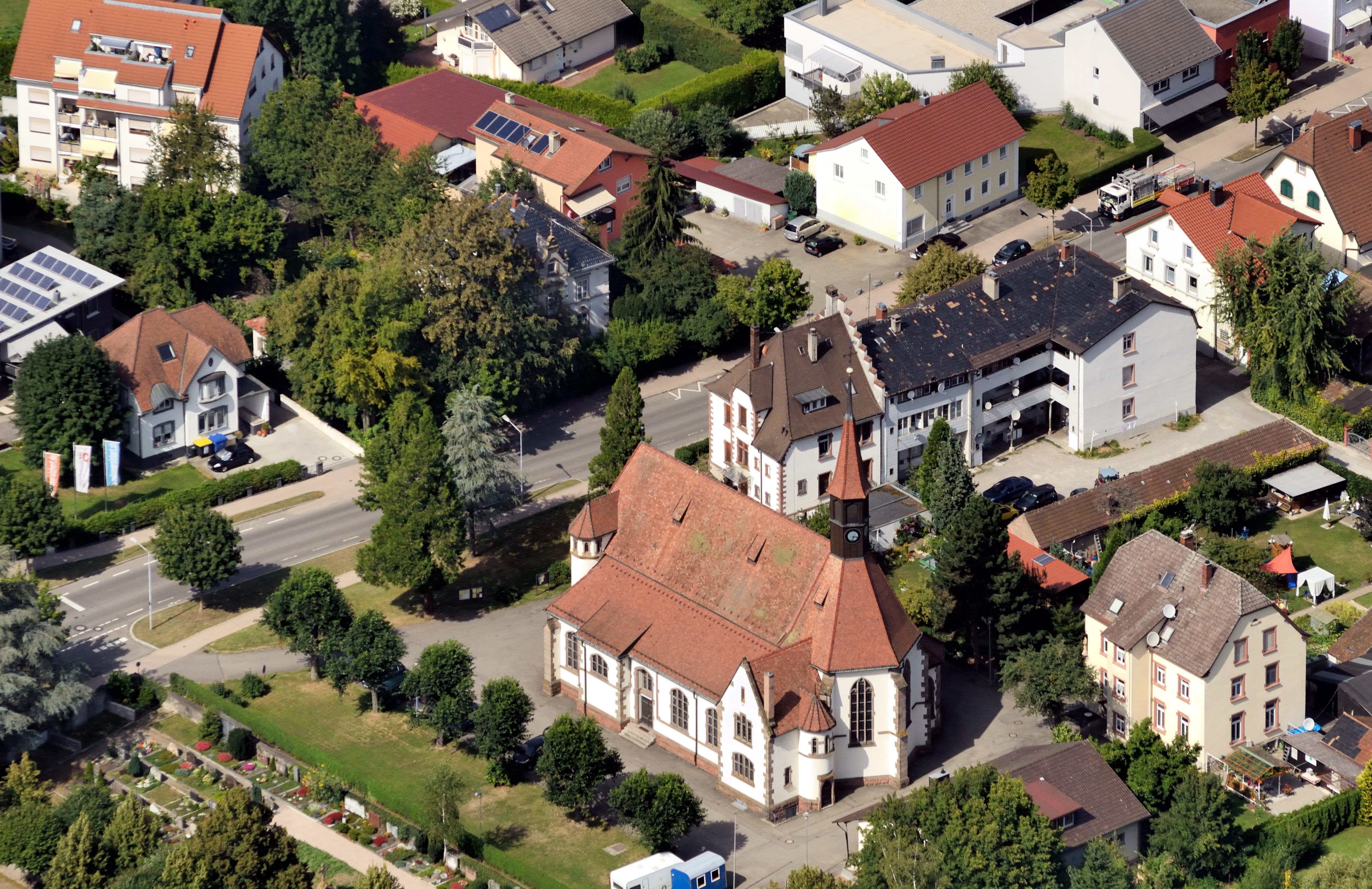 aerial view of Saint Josephs Church Lörrach-Brombach